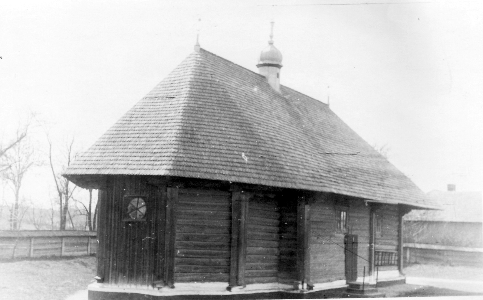 Wooden churh in Vrânceni, Zastavna, Ukraine (image from the archive of the Metropolitan of Moldavia, 1936, free of copyright)